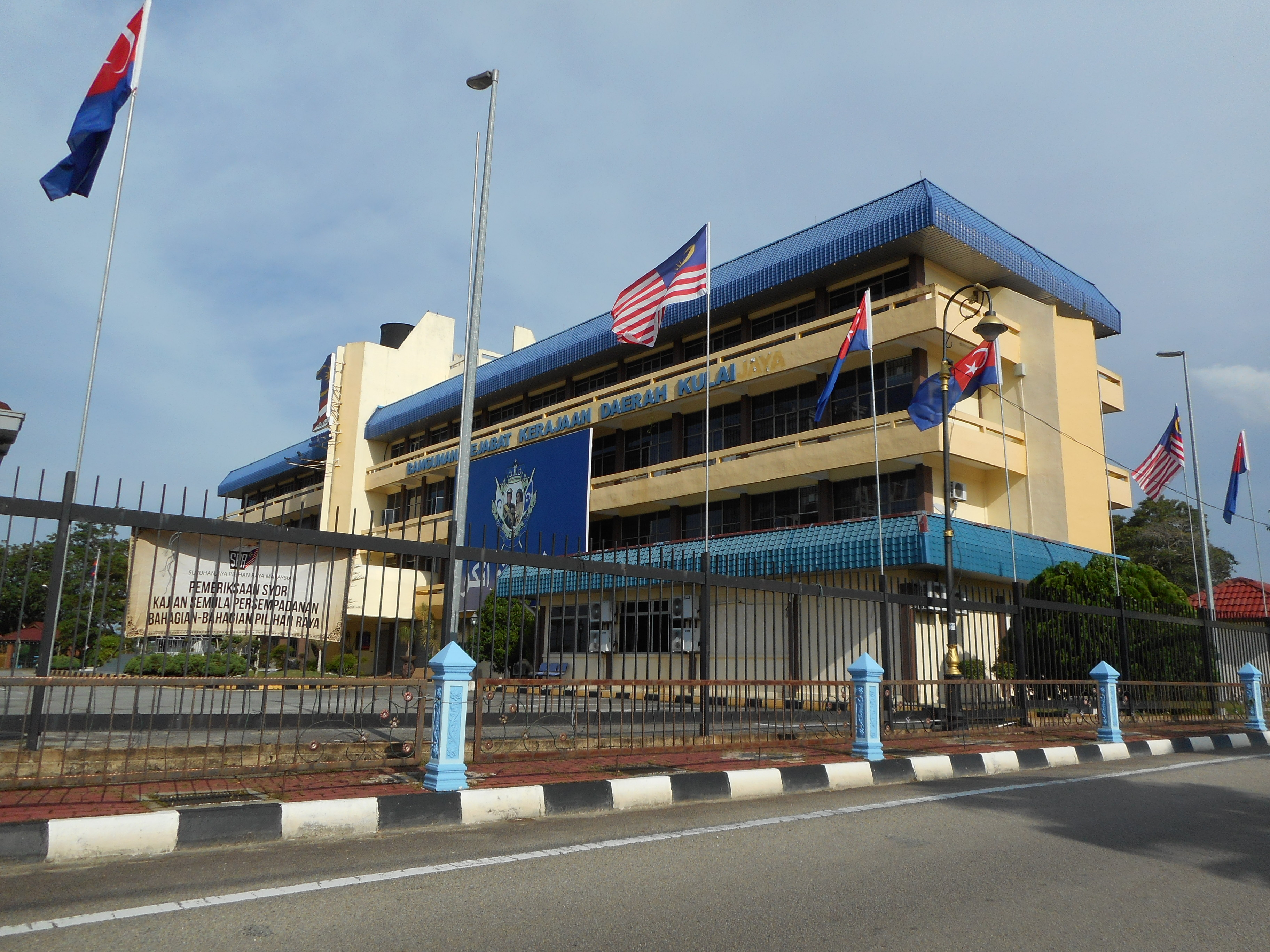 Kulai District Office, Kulai, Johor, Malaysia